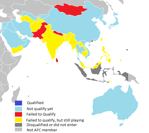 Qualification for 2018 FIFA World Cup AFC Zone